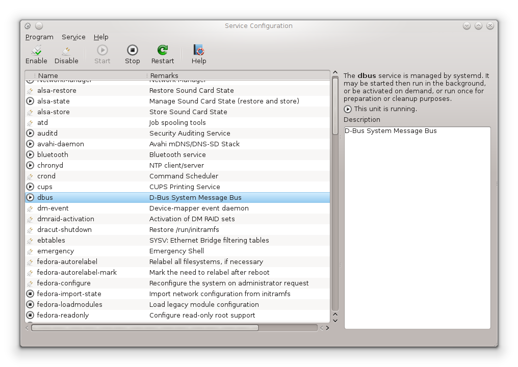 system-config-services toll on Fedora 19 (KDE Spin)